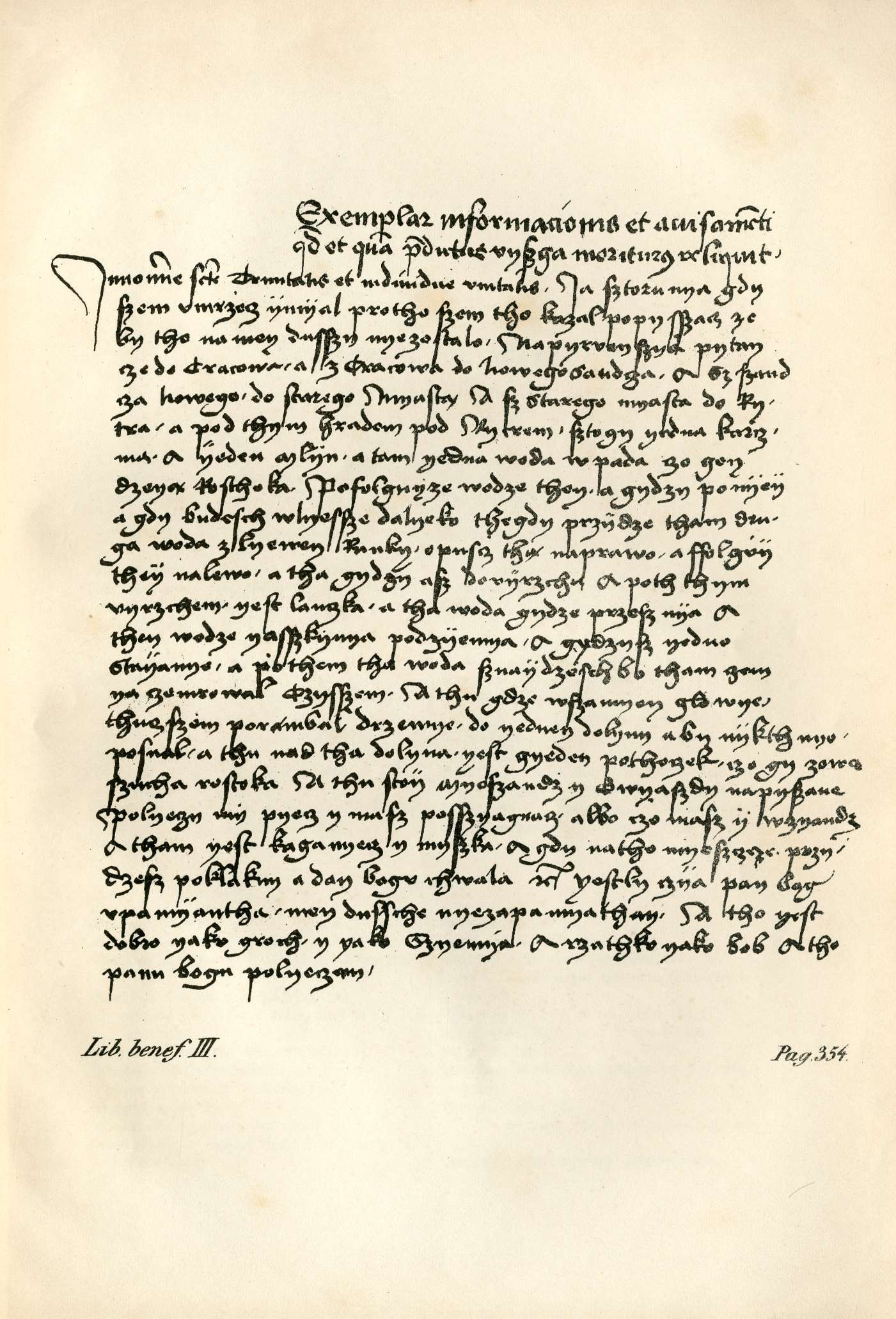 Piotr Wydżga's testament from Liber beneficiorum dioecesis Cracoviensi by Jan Długosz.